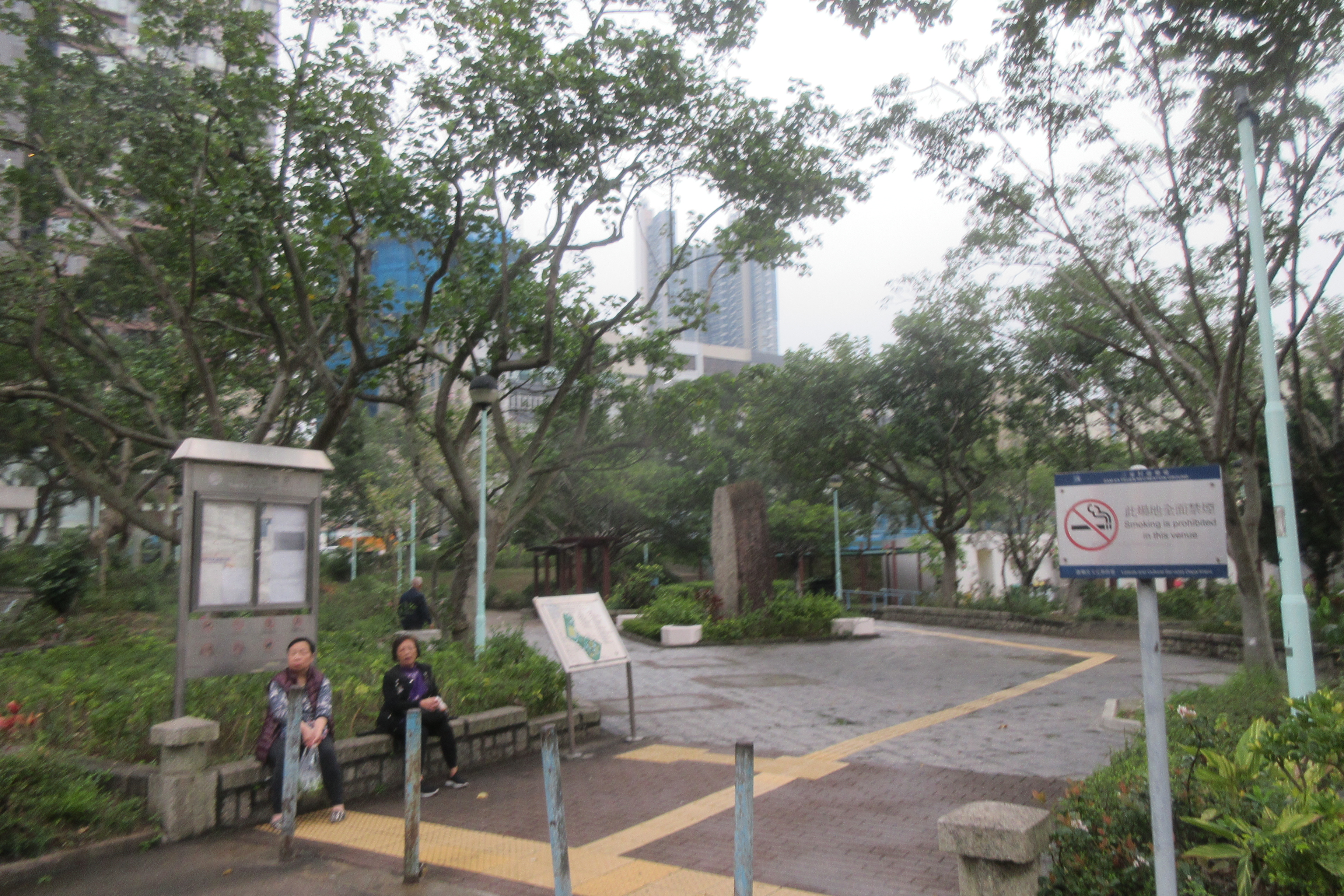 HK 油塘 Yau Tong in March 2019